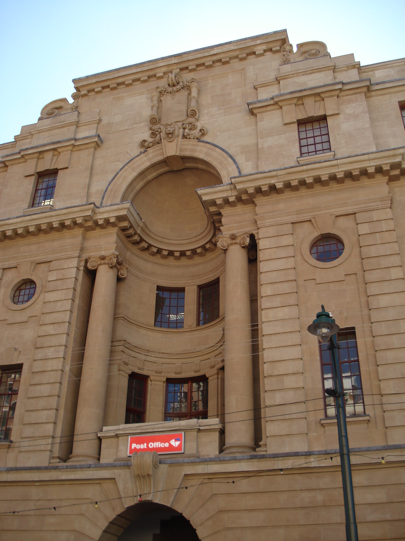 This media shows a South African Protected Site with SAHRA file reference 9/2/258/0012.